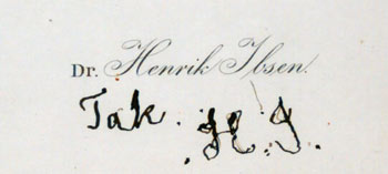 The last written words from Henrik Ibsen, made on February 14, 1904. It was written on a card to his physician, Edvard Bull, which clearly illustrates that Ibsen had been decapacitated by cerebrovascular disease.